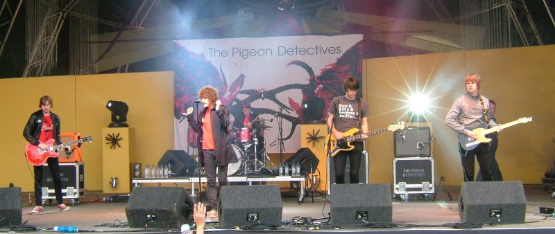 The Pigeon Detectives playing on the main stage of the Summer Sundae festival, Leicester, August 2007